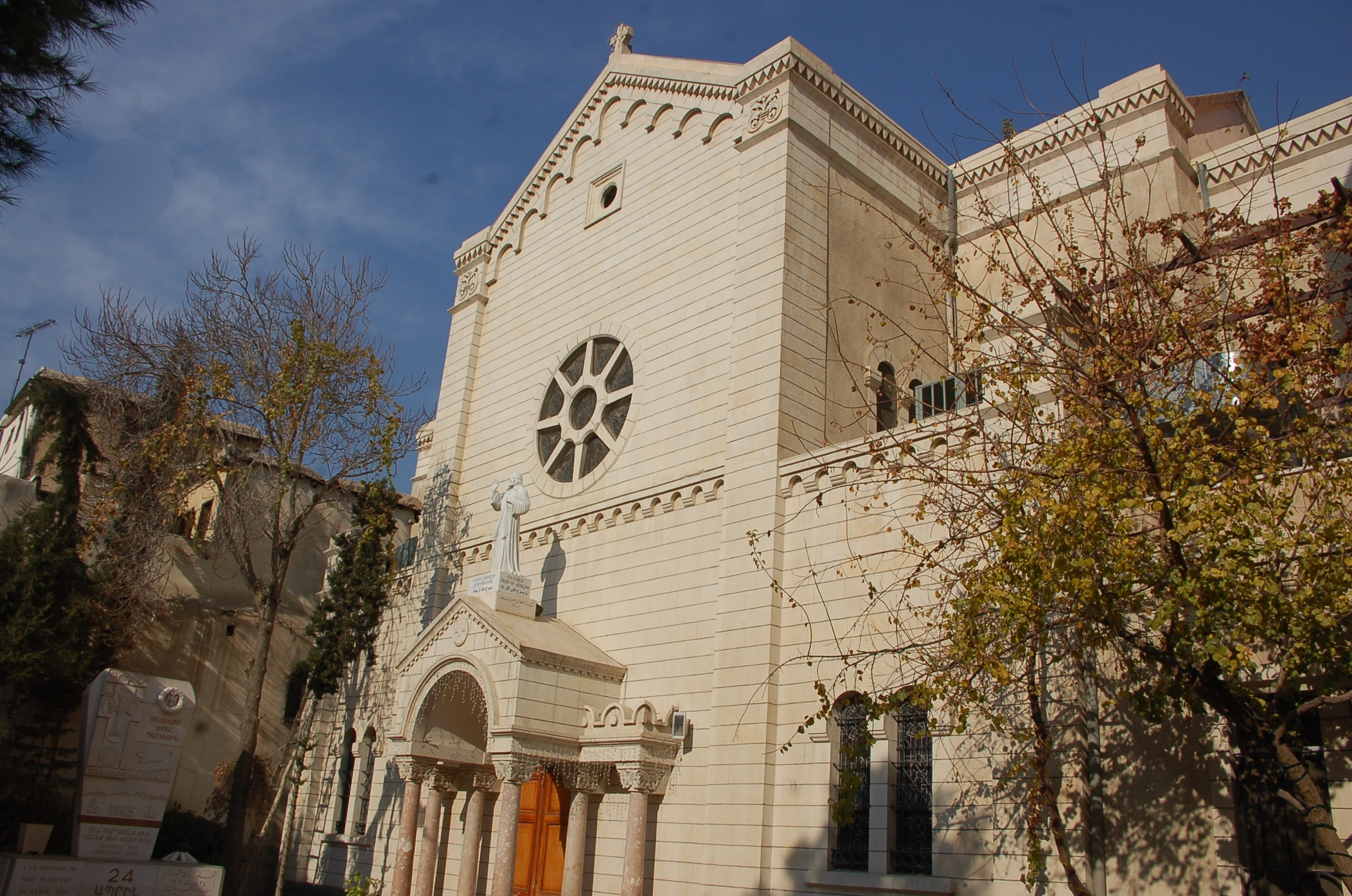 Armenian Catholic Church • Bab Touma, Damascus